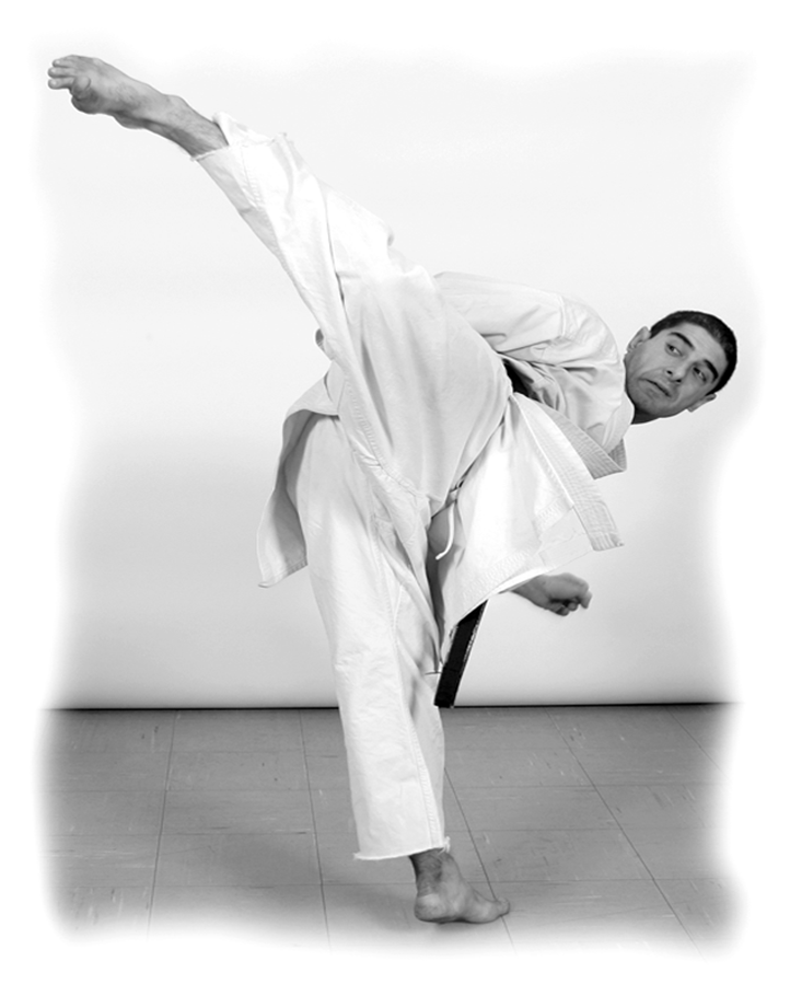 Frank Nezhadpournia (User:Actikarate)